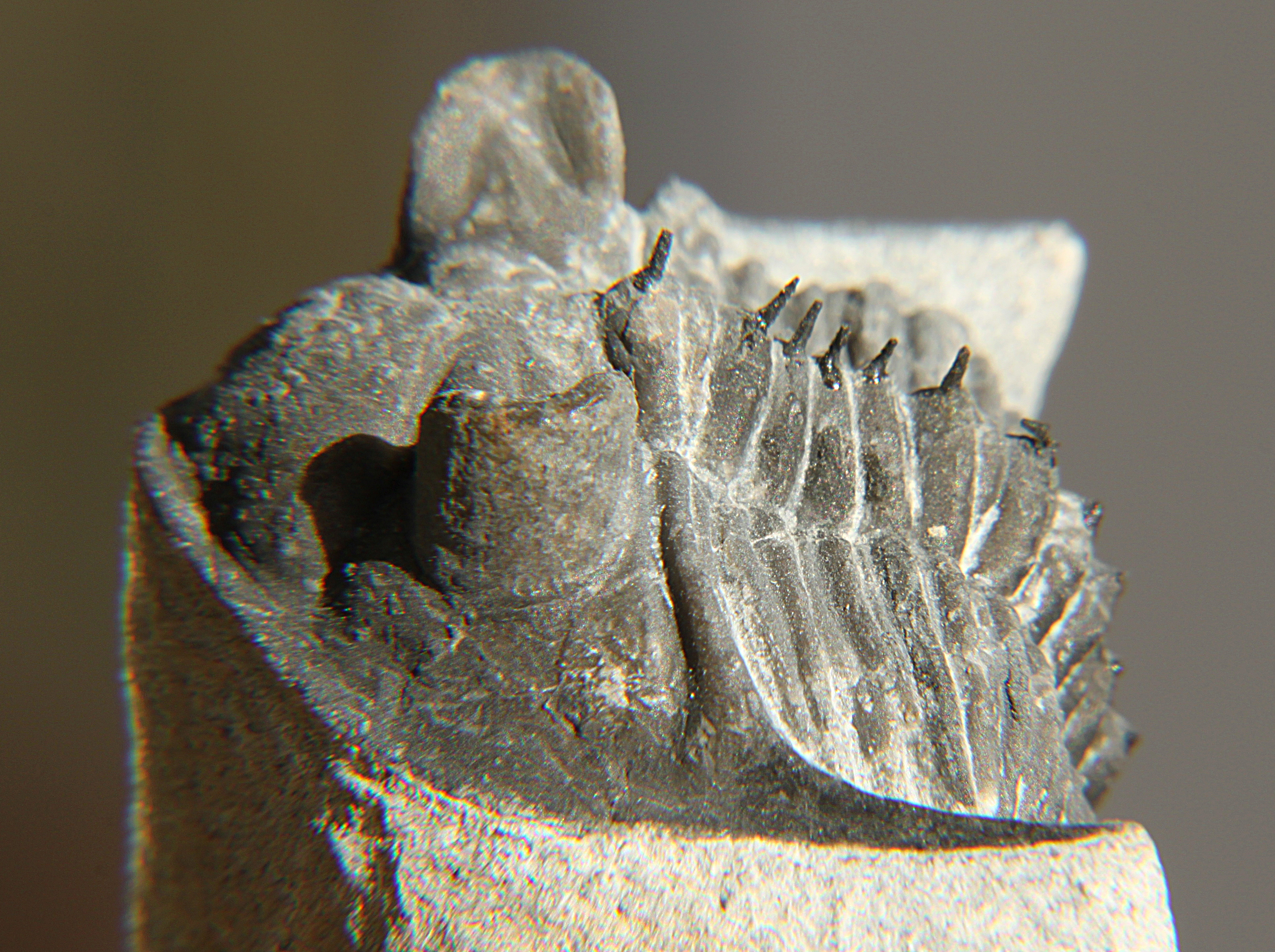 Erbenochile issoumourensis, lateral view, collected near Foum Zgid, Morocco, late Emsian, 45mm body length